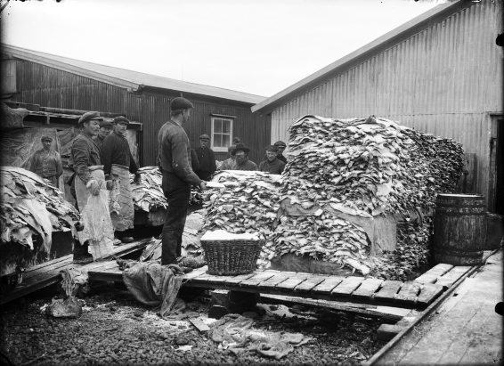 1912, saltfiskverkun. Verkamenn stafla saltfiski í stæður við fiskverkunarhús í Viðey. Ljósmyndari / Photographer: Magnús Ólafsson Format: Glerplata / Glass negatives, 12 x 16 cm. Höfundarréttur / Rights Info: Enginn þekktur höfundarréttur / No known restrictions on publication. Geymsla / Repository: Ljósmyndasafn Reykjavíkur / Reykjavík Museum of Photography, Tryggvagata 15, 6. Hæð / 6th floor Númer myndar / Call Number: MAÓ 1672 Myndavefur Ljósmyndasafnsins / Reykjavík Museum of Photography´s photoweb: ljosmyndasafn.reykjavik.is/fotoweb/Grid.fwx